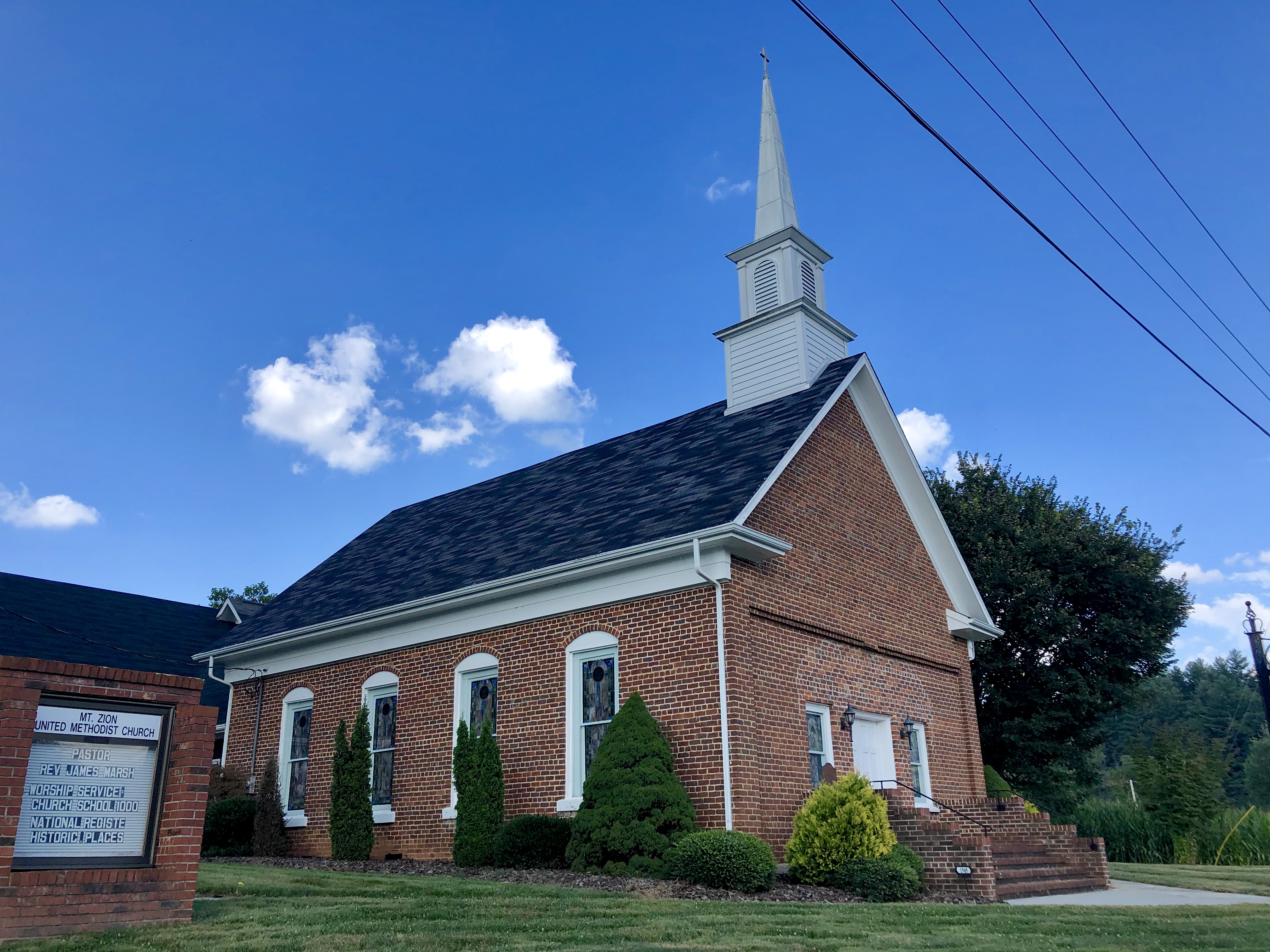 This is the Mount Zion United Methodist Church, located at Crabtree, North Carolina. Constructed in 1882-83, the brick church structure is the oldest remaining in use in Haywood County, and was listed on the National Register of Historic Places in 1986.